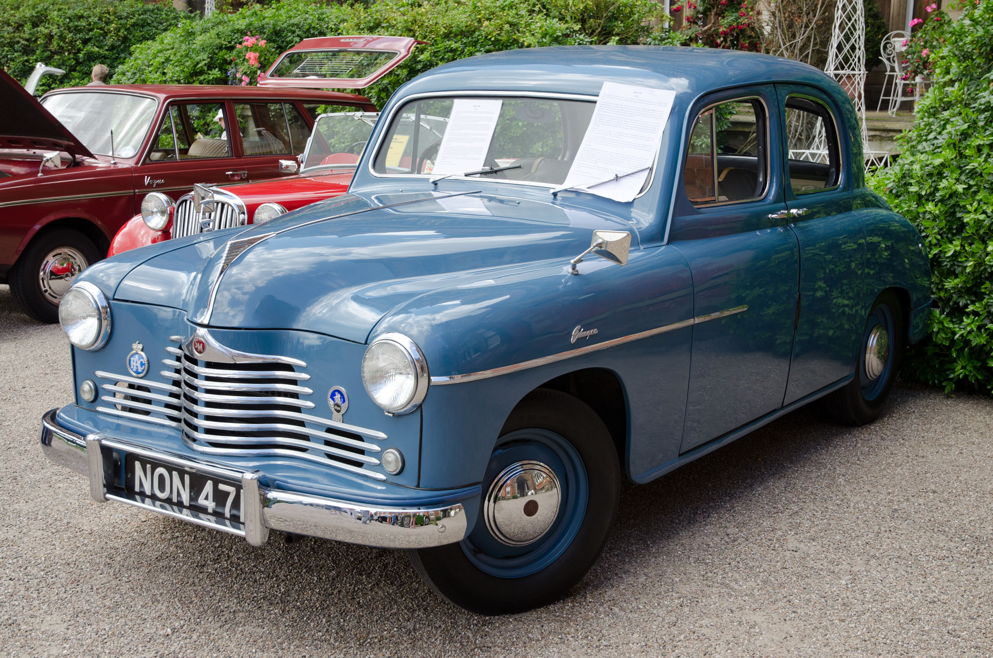 1953 Singer SM1500 saloon (DVLA) Capesthorne Hall Classic Car Show 27/07/2014